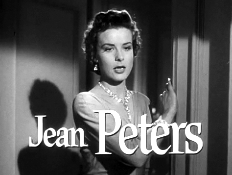 screenshot of Jean Peters from the trailer for the film Little A Blueprint for Murder (1953)